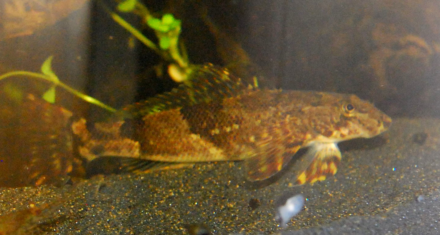 torrent fish, Cheimarrichthys fosteri